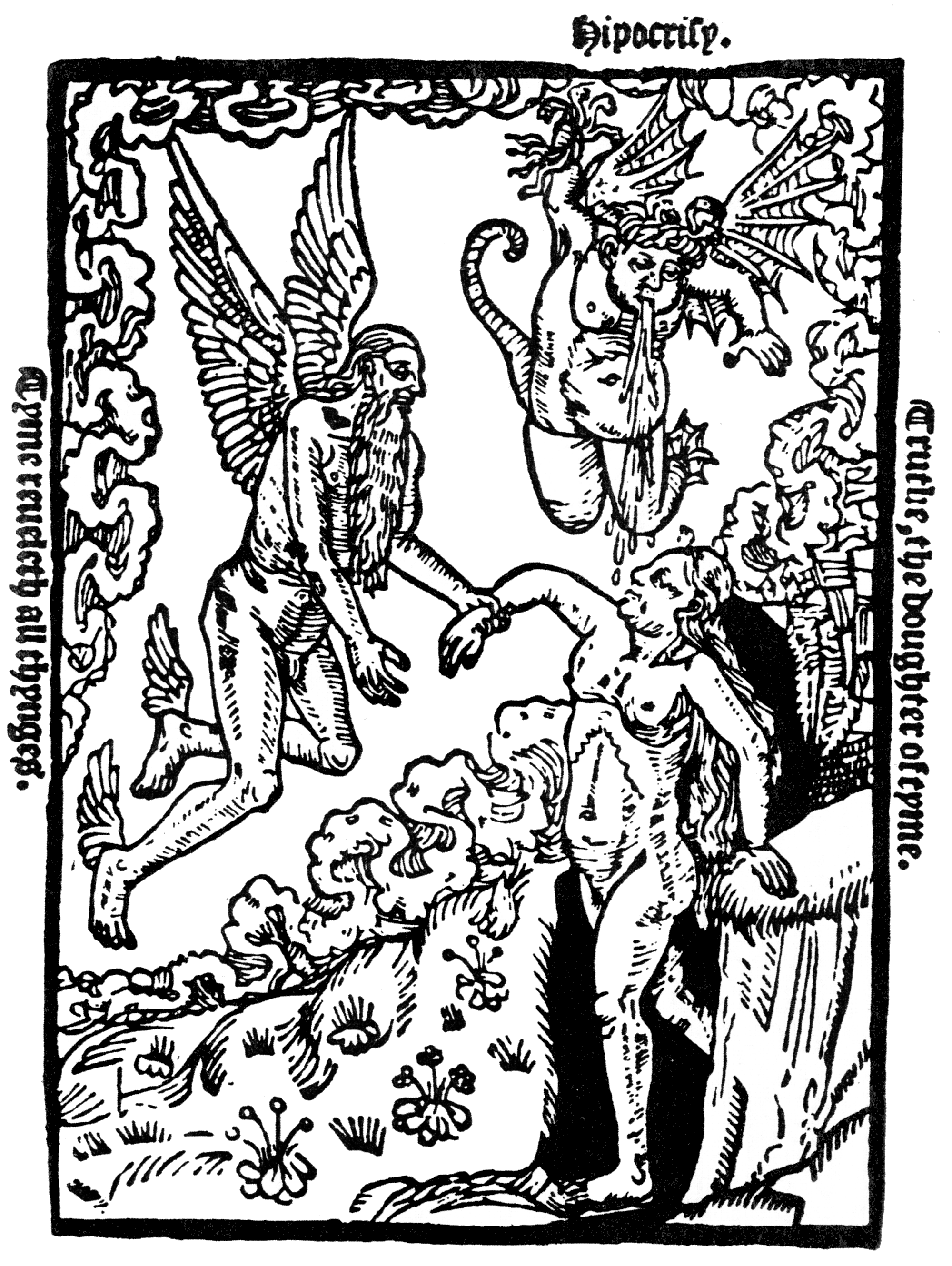 Engraving by John Byddell of Truth, "the daughter of time" being led out of the darkness by Time, which "revealeth all things. A vomiting demon labeled hypocrisy threatens her. From the Goodly prymer